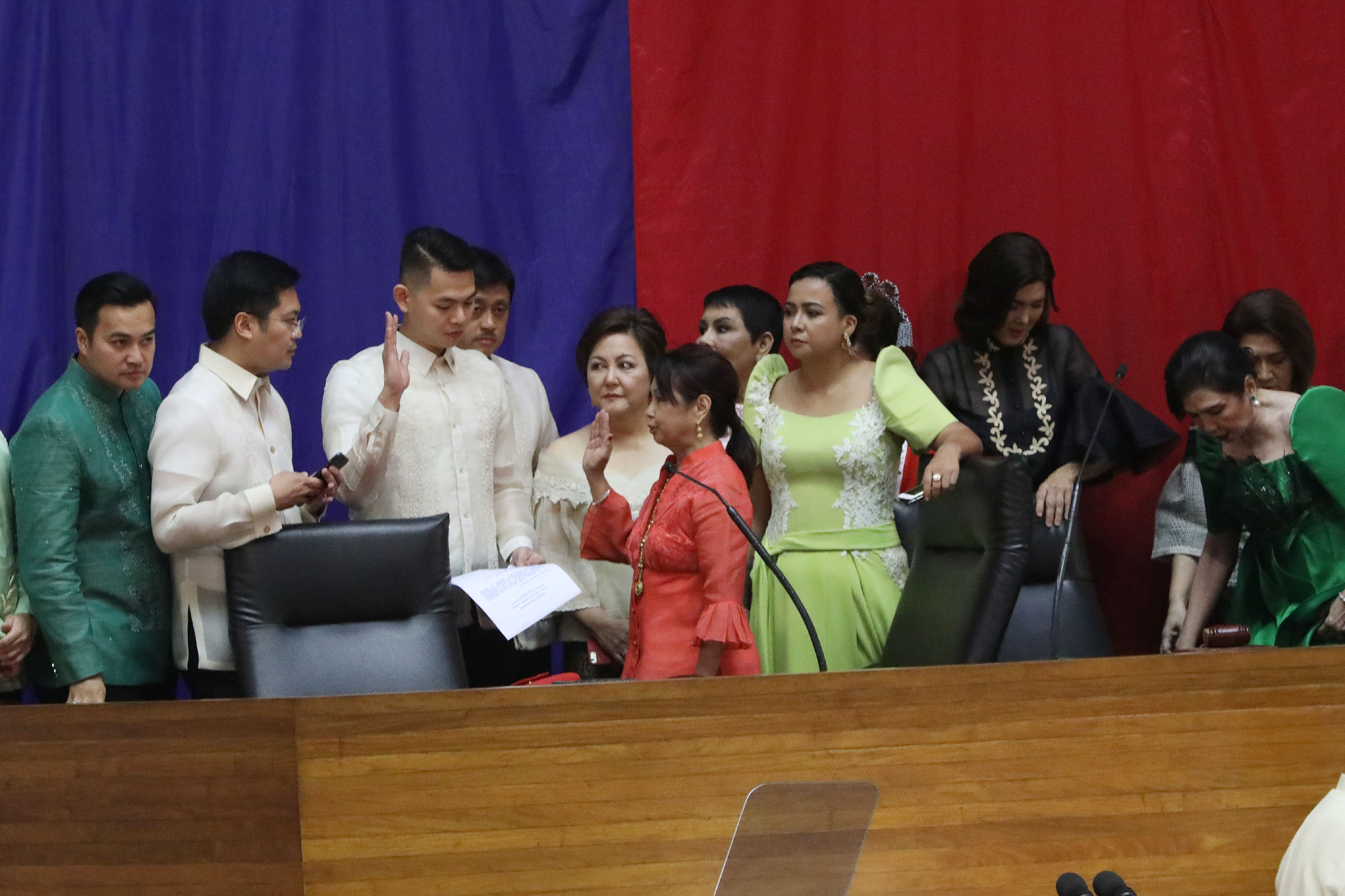 Ang Kabuhayan Partylist Rep.Dennis Laogan (3rd from left) administered the oath of former President and Pampanga Representative Gloria Macapagal-Arroyo (4th from right) as new House Speaker at the House of the Representative at the Bantasan Hills in Quezon City on Monday (July 23, 2018)